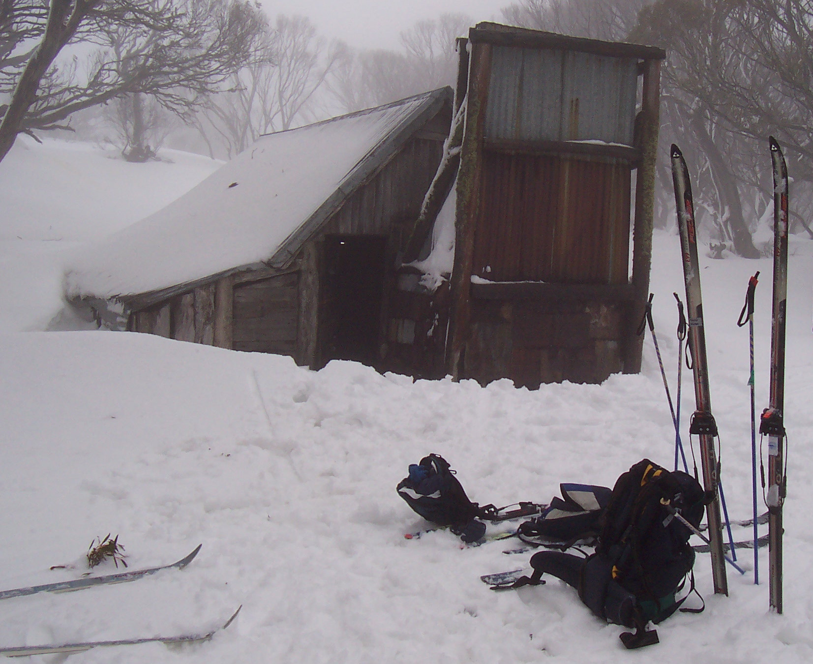 This is original photography. Taken winter 2004. It is of Wallace's Hut on the Bogong High Plains, Victoria